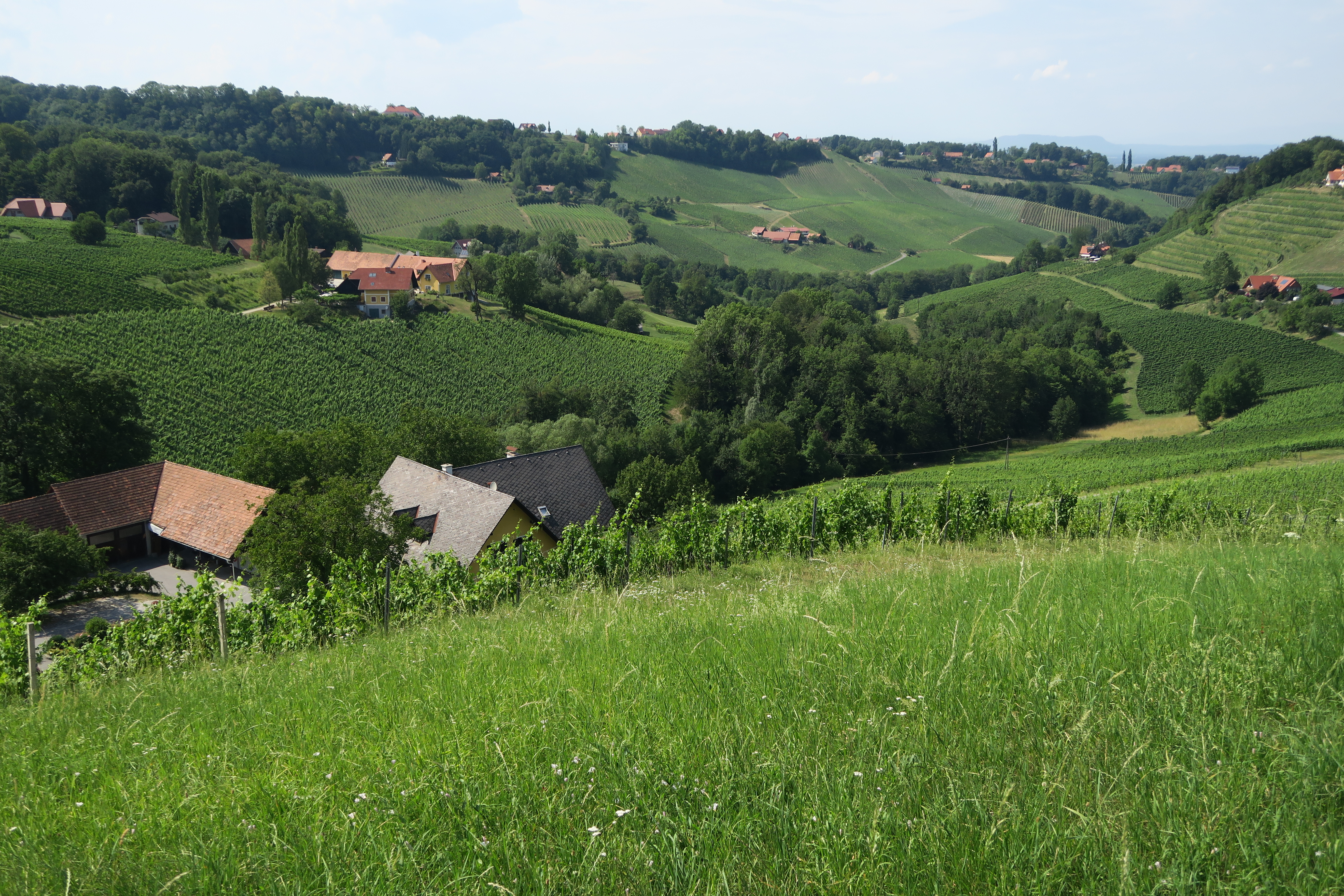 Grassnitzberg Obegg Spielfeld